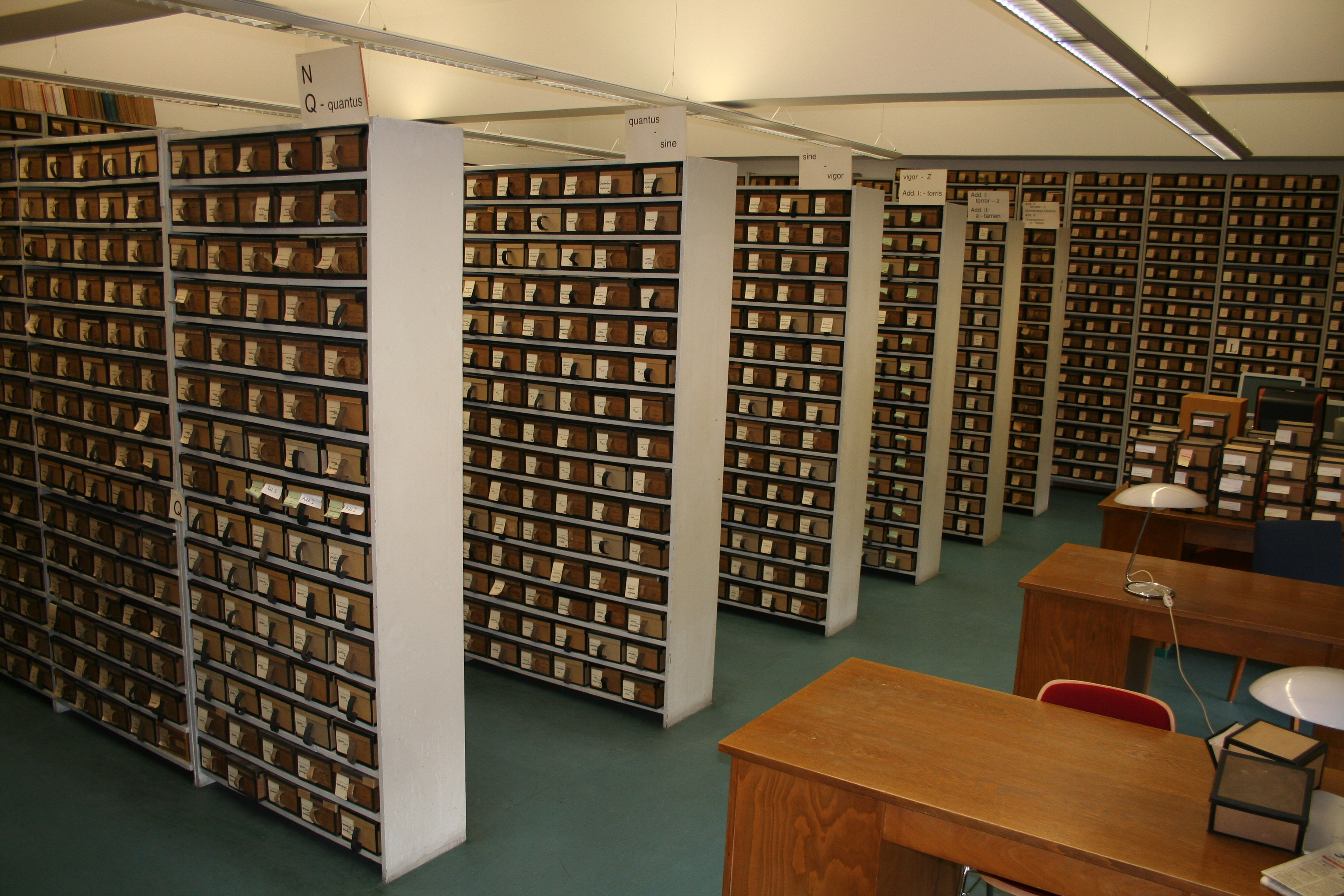 The archive of the Thesaurus Linguae Latinae with some of the 10 million slips used in creating the dictionary